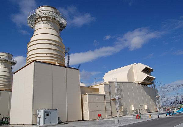 noise controll system for gasturbine